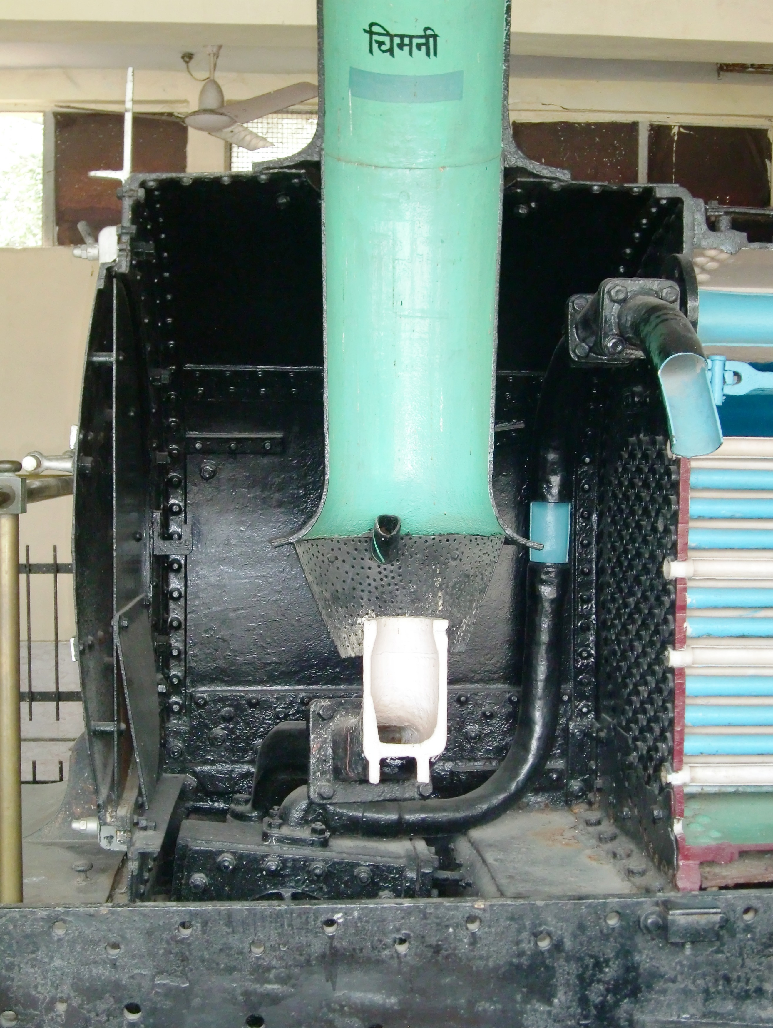 Smoke box of A48 , National Railway Museum(India)